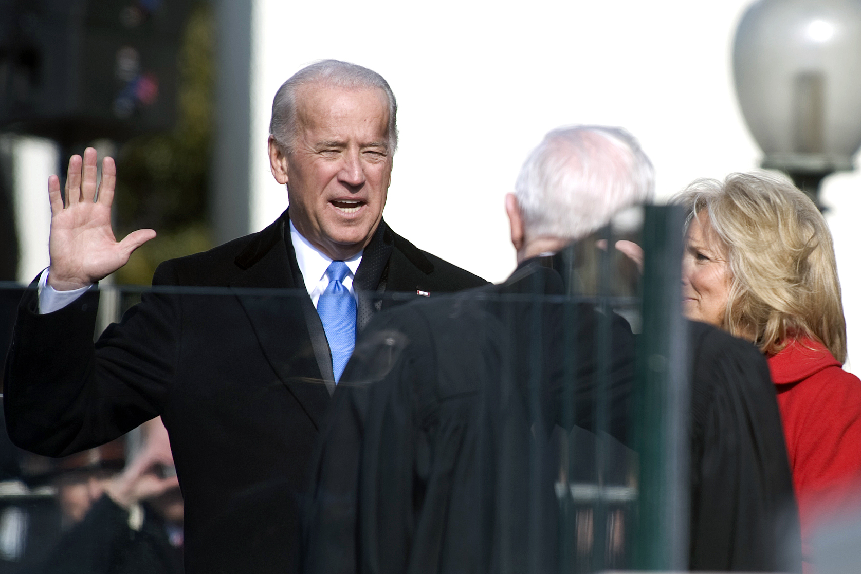 Vice President Joe Biden takes the oath of office during at the 56th Presidential Inauguration, Washington, D.C., Jan. 20, 2009.